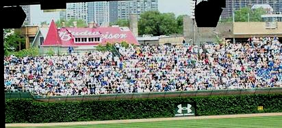 I took this photo at Wrigley Field on June 2, 2007. 03:25, 6 August 2007 . . Baseball Bugs . .412 x 189 (28,297 bytes)